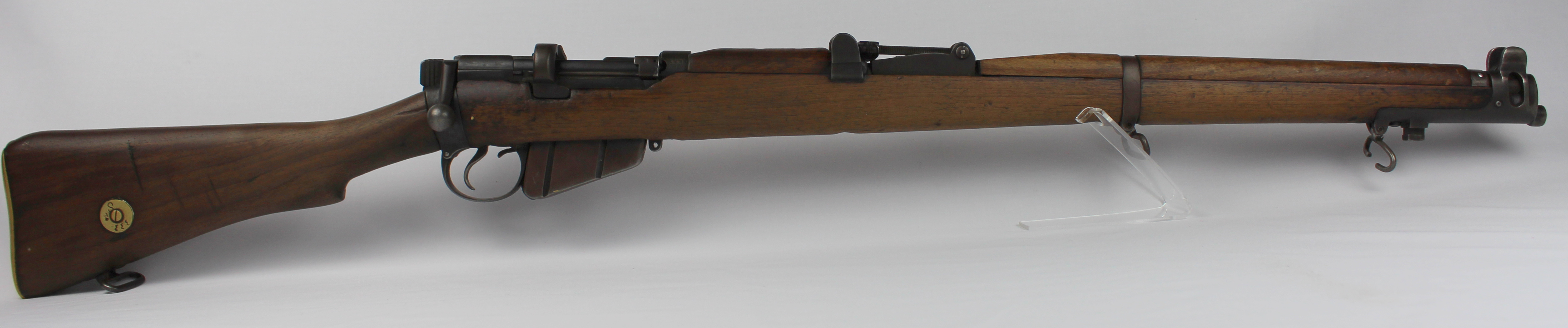 The Short Magazine Lee-Enfield or: SMLE, nicknamed “smelly”, had a reputation as an extremely reliable and accurate weapon. It was the standard British infantry rifle during the World War One and continued to be used into the 1950s. In well trained hands it’s rate of fire was almost double that of the German Mauser service rifle.